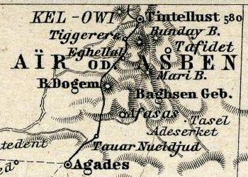 Aïr in Adolf Stielers Handatlas, 1891.